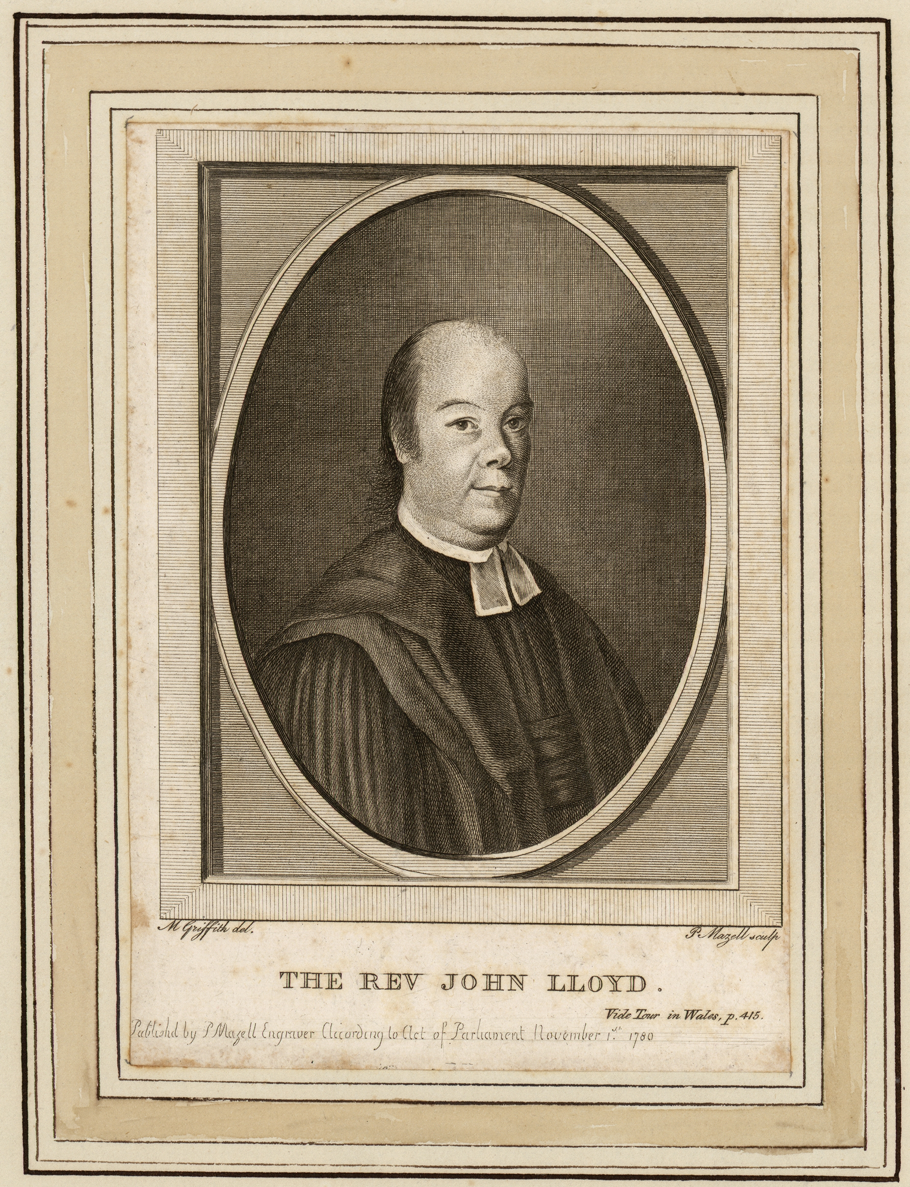 An image from a set of 8 extra-illustrated volumes of A tour in Wales by Thomas Pennant (1726-1798) that chronicle the three journeys he made through Wales between 1773 and 1776. These volumes are unique because they were compiled for Pennant's own library at Downing. This edition was produced in 1781. The volumes include a number of original drawings by Moses Griffiths, Ingleby and other well known artists of the period. Thomas Pennant (1726-1798)